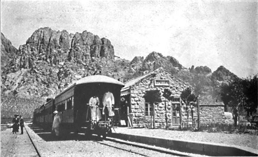 Photograph of Uspallata railway station circa 1910. Uspallata is a small village in Argentina and was a stop on the Transandine Railway.